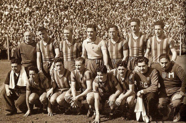 Rosario Central in 1951, Primera B champions.